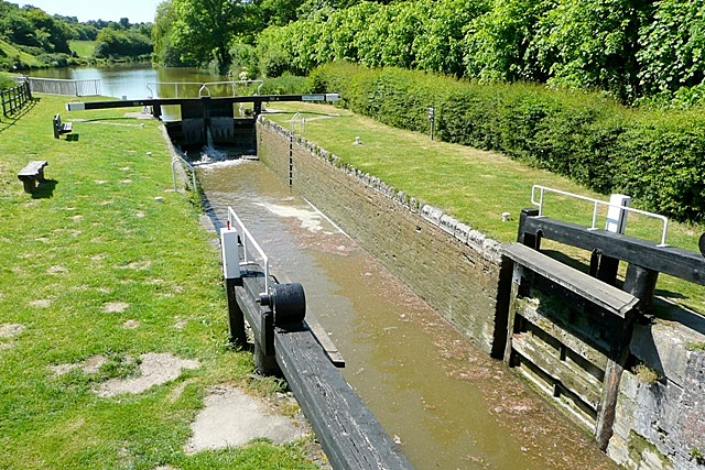 Dun Mill Lock Lock 75, with a fall of 5 feet 8 inches. This lock is regularly used by the canal trip boat Rose of Hungerford.